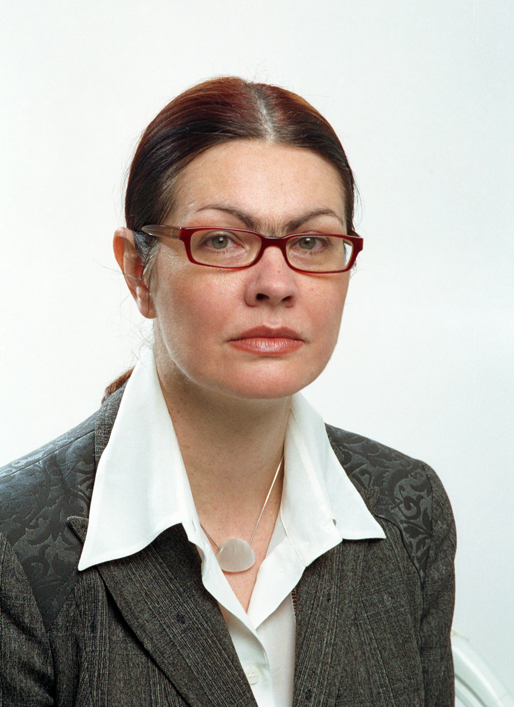 Deputy of the 9th Saeima Helēna Demakova